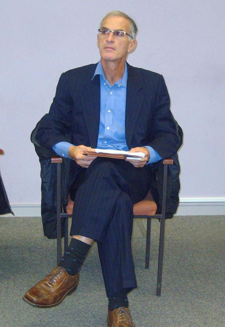 Dr. Norman Finkelstein is a public figure. This photo of Dr. Norman Finkelstein taken with his permission during a lecture in the University leeds.